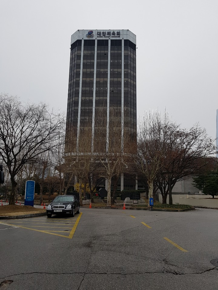 It fosters amateur sports in Korea and coaches and supervises sports organizations. Internationally, it is a national Olympic committee representing the Republic of Korea.